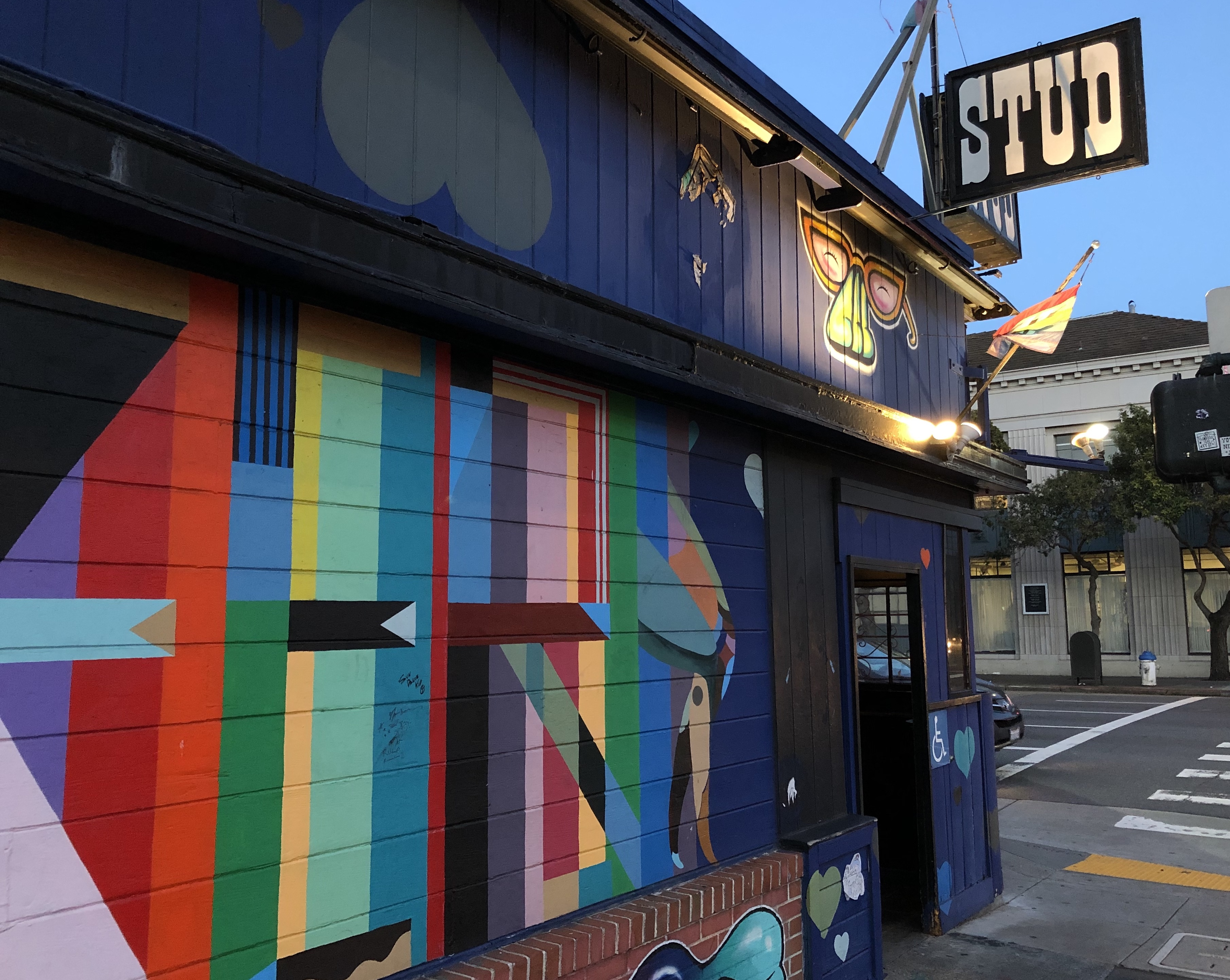 The Stud is a historic gay bar at 9th St and Harrison St in South of Market, San Francisco.